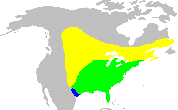 Approximate distribution map of the Common Grackle (Quiscalus quiscula). Yellow indicates the summer-only range, blue indicates the winter-only range, and green indicates the year-round range of the species.